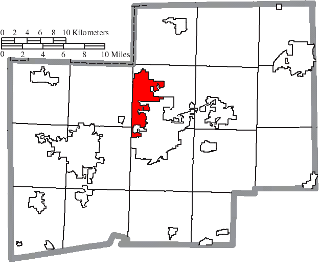 Map of the municipal and township boundaries of Stark County, Ohio, United States, as of the 2000 census, with the location of the city of North Canton highlighted. Township borders are shown only in unincorporated areas in order to differentiate incorporated and unincorporated areas more clearly.